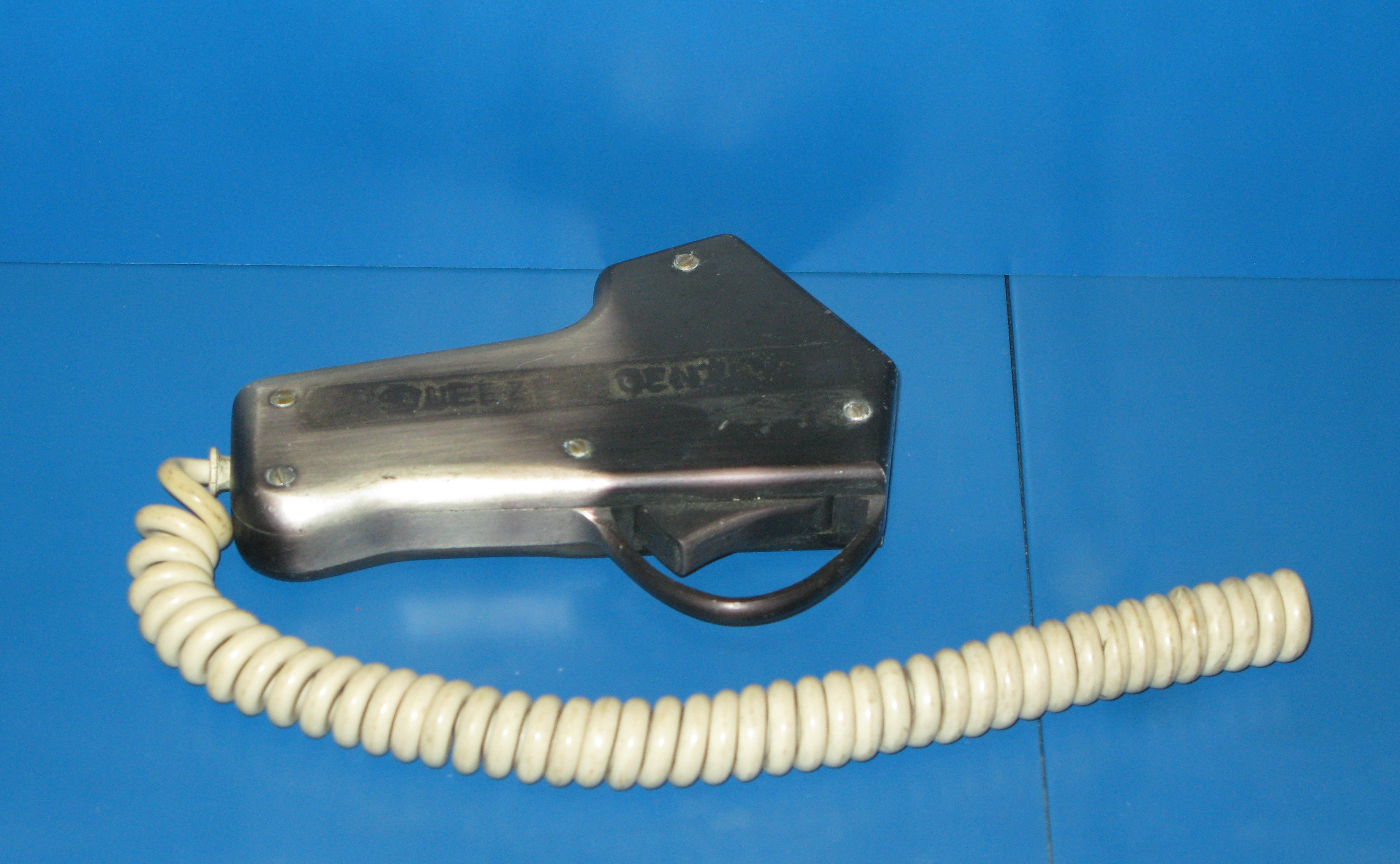 Photo of the maintainance firing trigger from a Resolution class submarine, used to check the launch circuits and similar to the actual red coloured trigger used to launch the sub's Polaris missiles